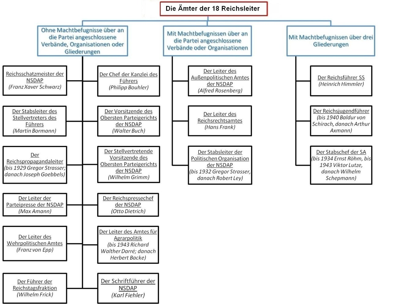 Reichsleiter der NSDAP/Reichsleiter of the NSDAP